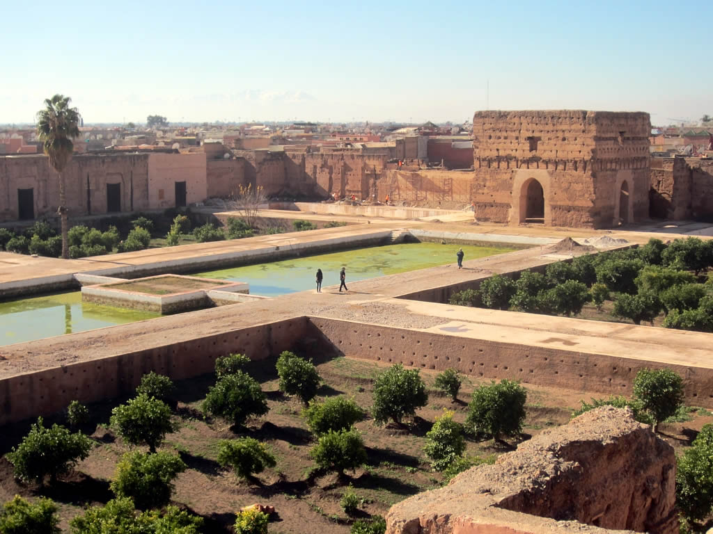 Ruins of the 16th century Palais el-Badi in Marrakesh, Morocco.